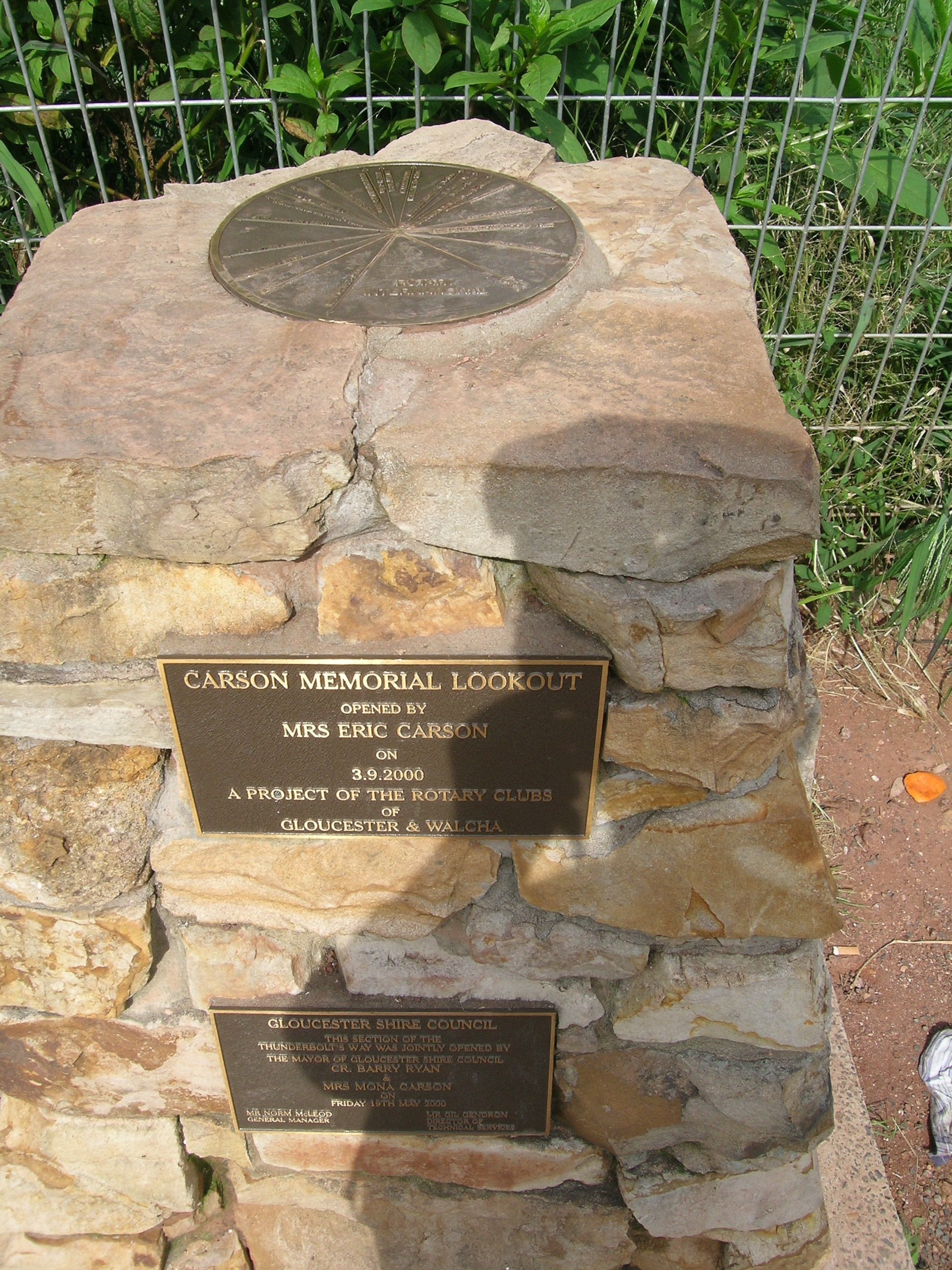 Monument commemorating the opening of a section of Thunderbolts Way, Carsons Lookout, NSW